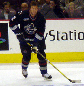 Defenceman Mattias Ohlund with the Vancouver Canucks in October 2005.